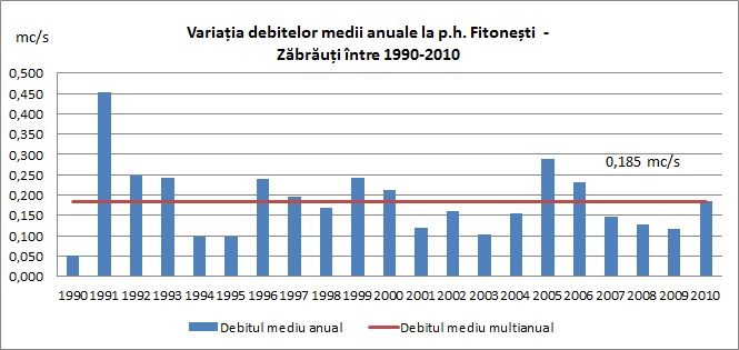 Variația debitelor medii anuale pe râul Zăbrăuți 1990-2010